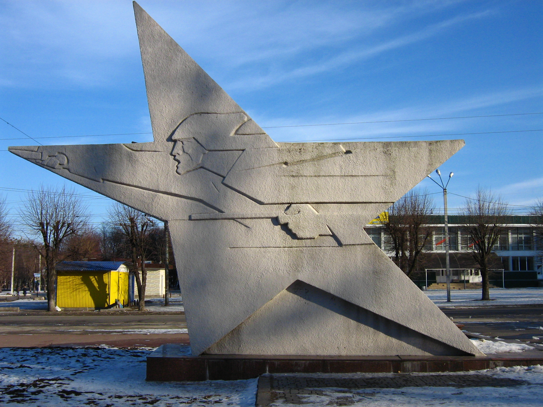 Soviet Army Star, a monument to Soviet soldiers on the Street of Kharkov Divisions. Kharkov. 1973.